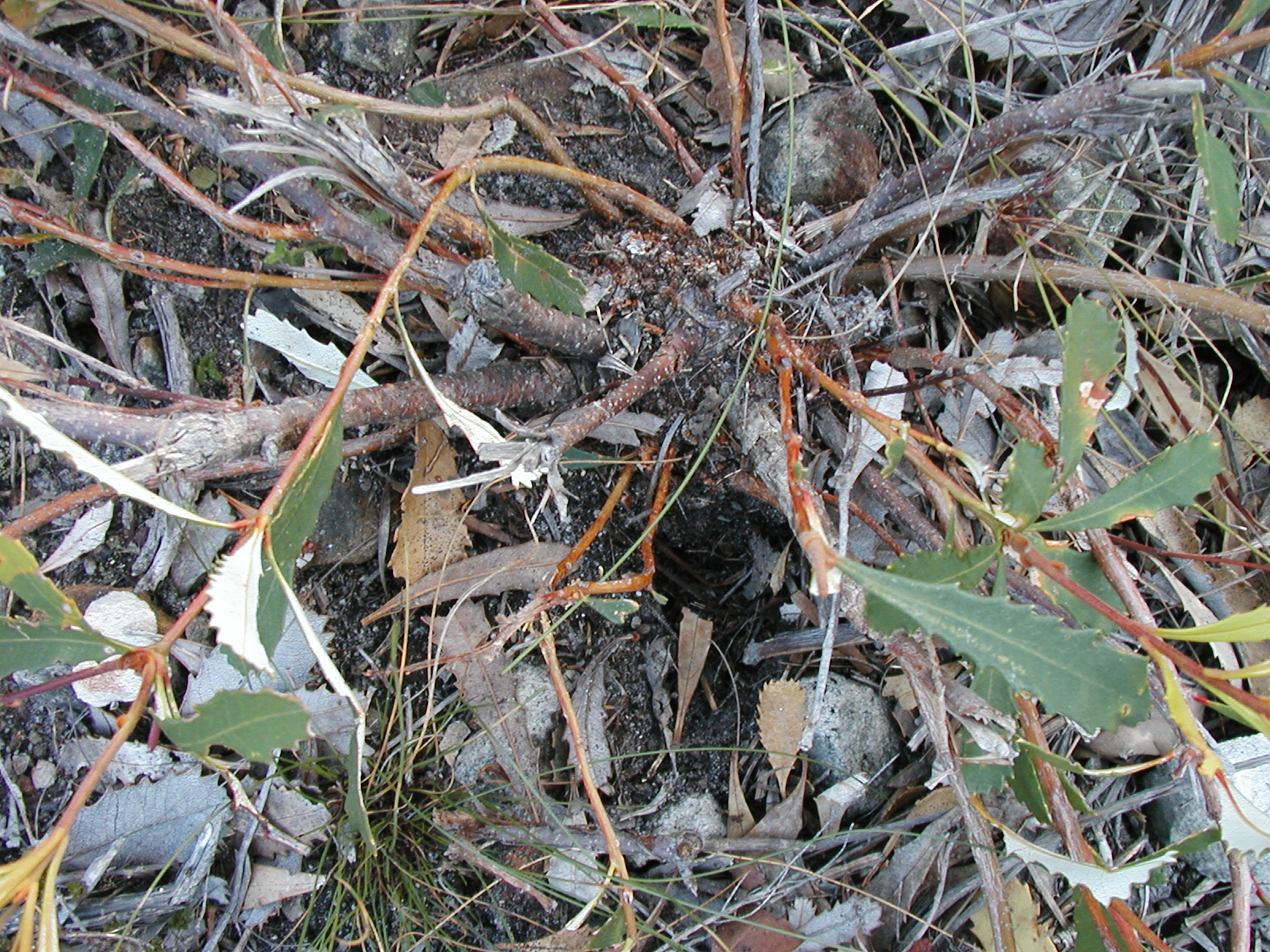 Base of Banksia paludosa ssp paludosa plant showing woody base and buds indicating a lignotuber, Vincentia NSW